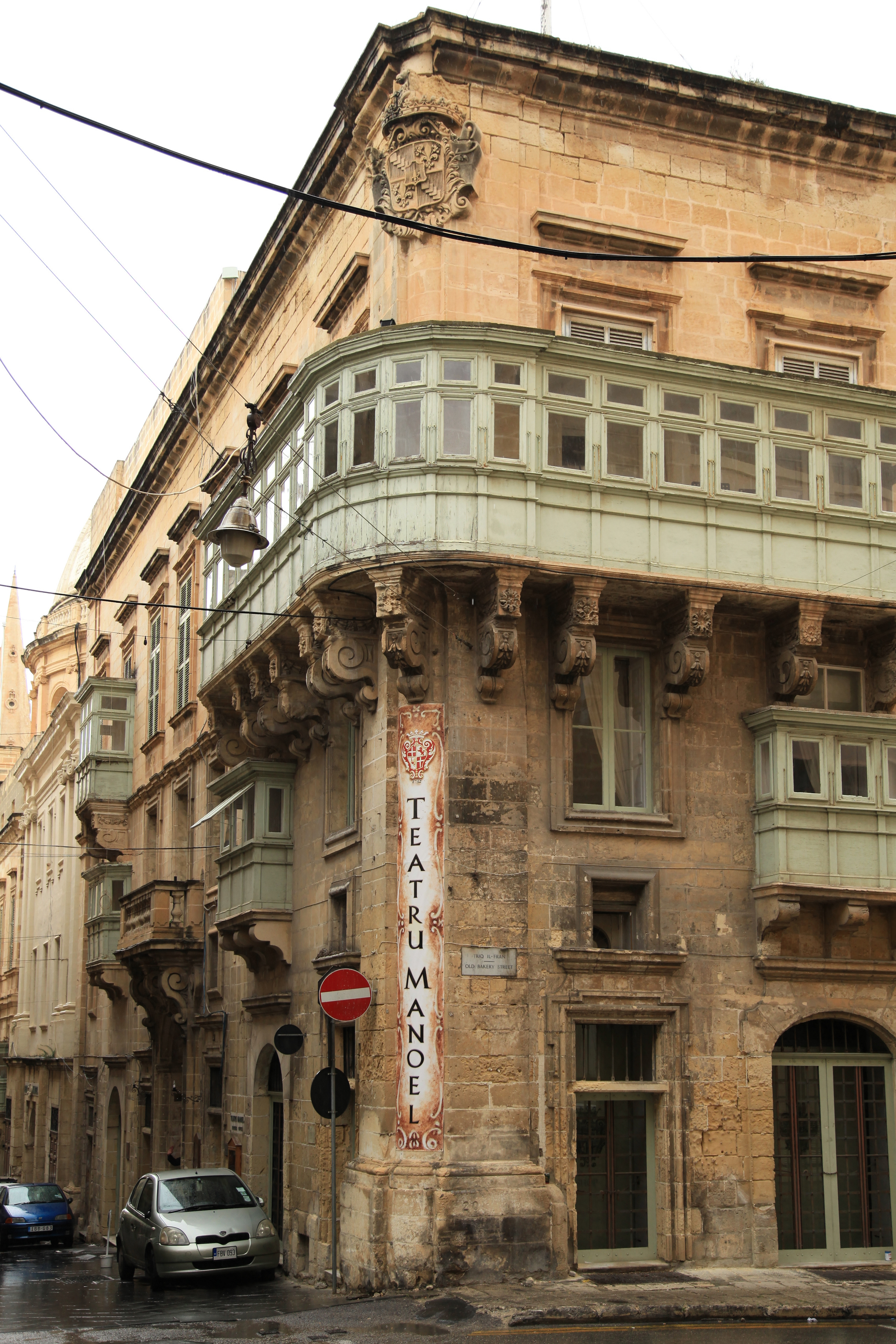 Teatro Manoel, Triq il-Fran / Triq it-Teatru l-Antik in Valletta, Malta